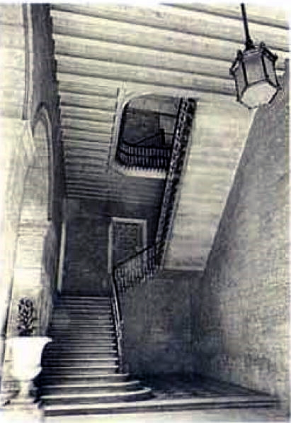 Palacio de Aldama_Havana, Cuba. Stair from first to 2nd floor.